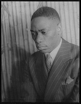 Portrait of Oscar Polk by Carl Van Vechten Portrait of Oscar Polk